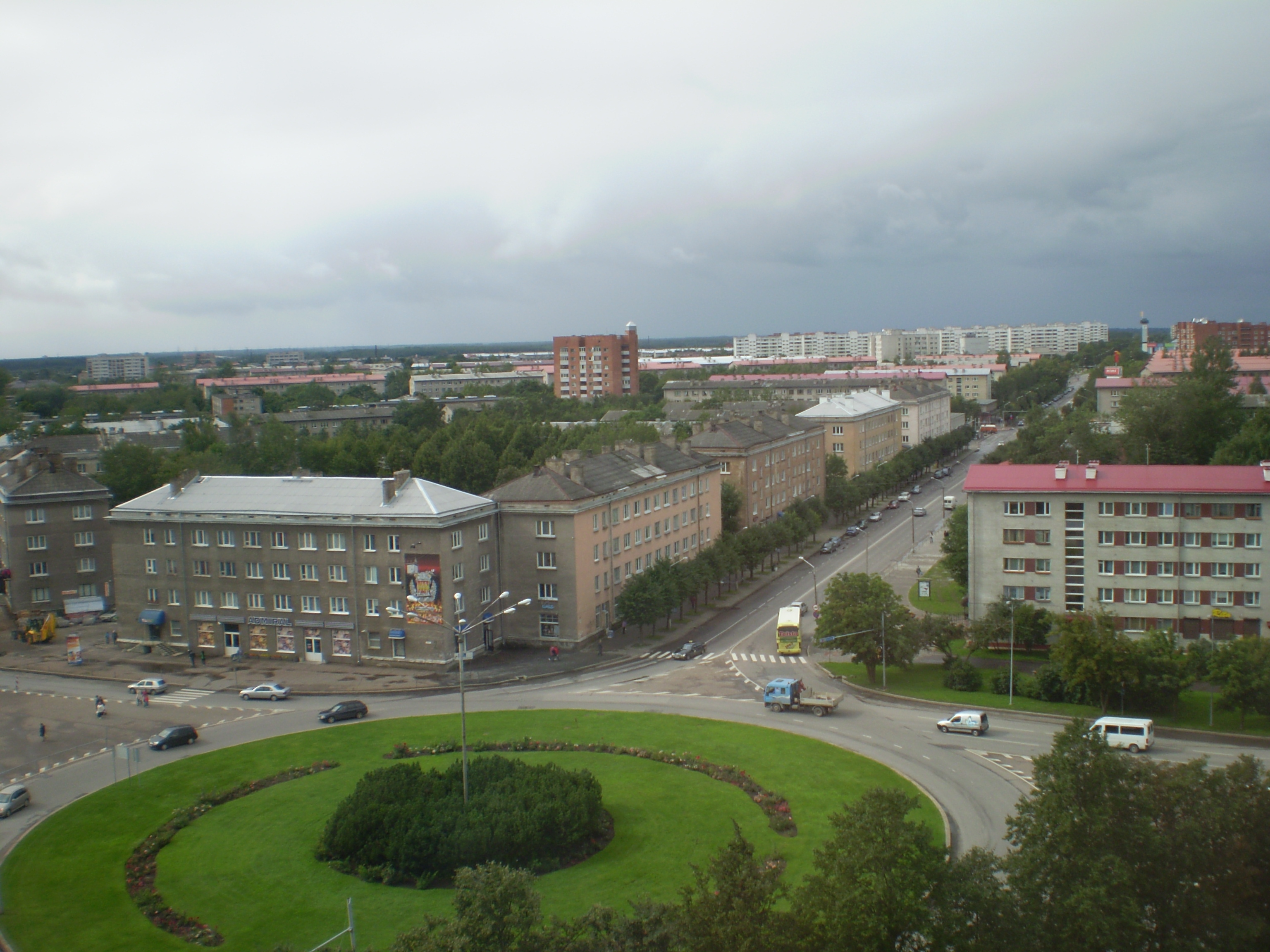 A view from building of SEB bank in Narva, Estonia.